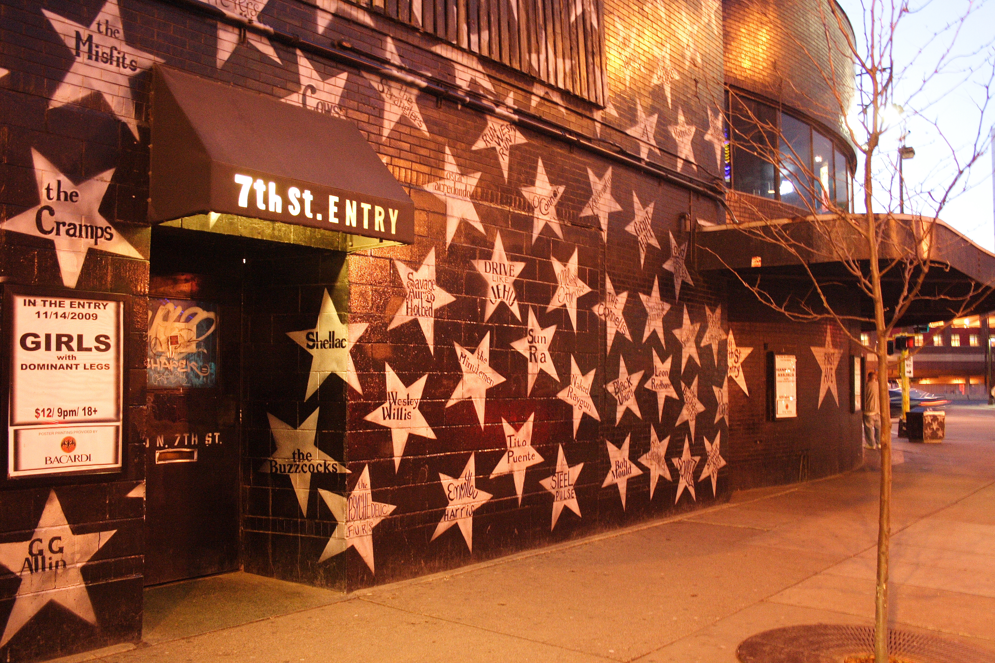 7th Street Entry Minneapolis, MN Exterior Photo